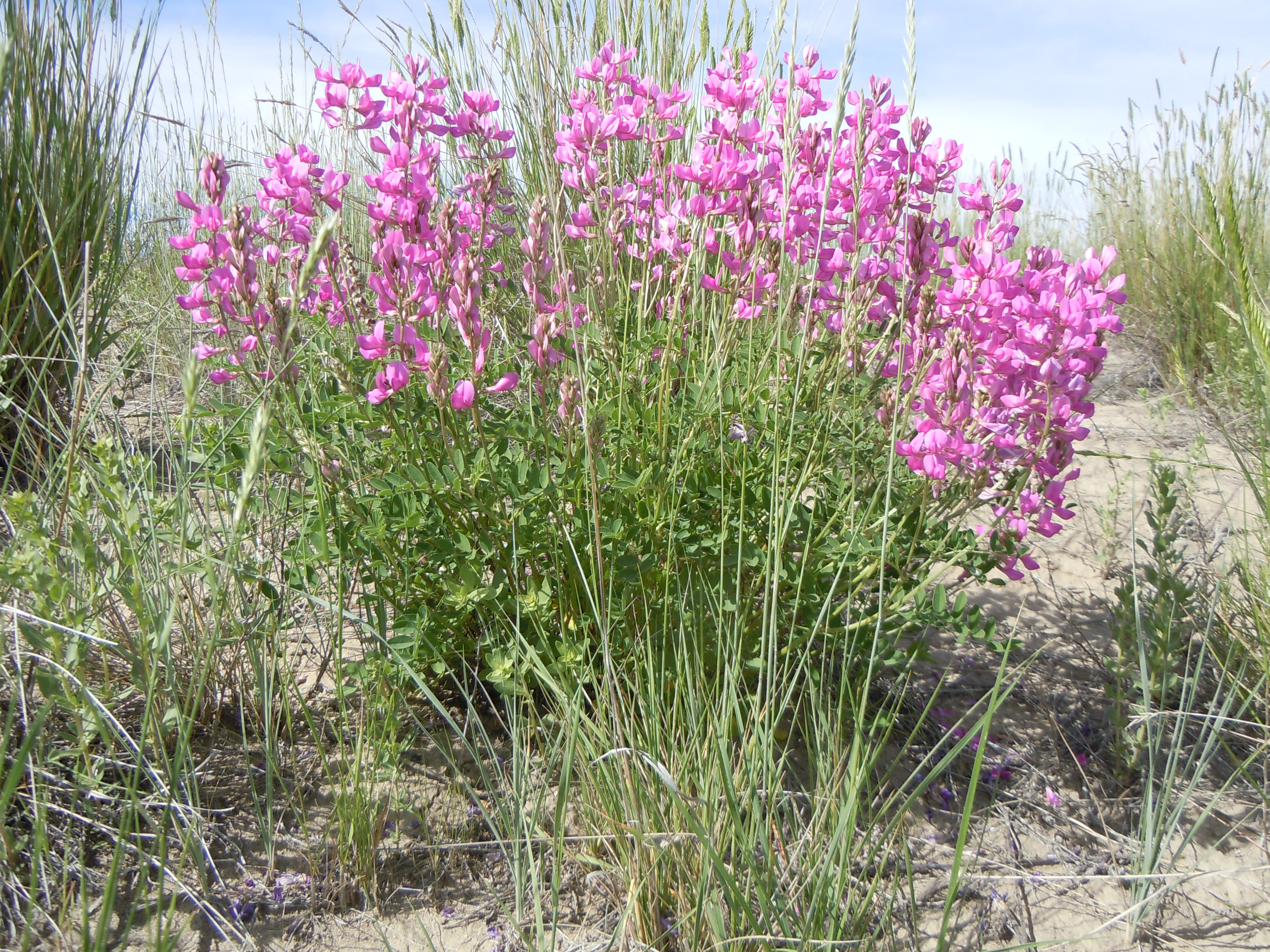 Regardless of possible roadside plantings, Hedysarum is found roadside in the INL even well of the pavement where is seems to be confined to the two-track roads.